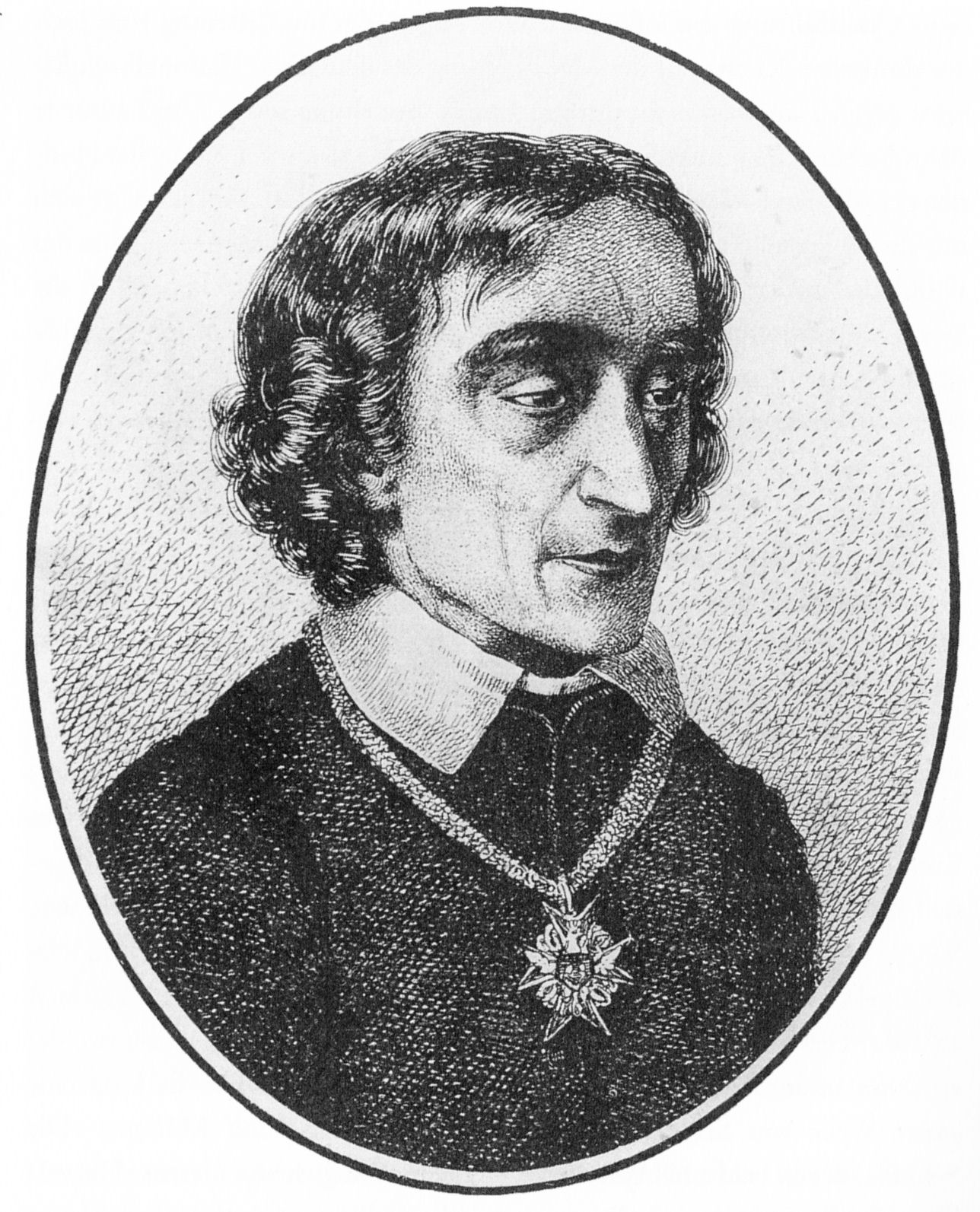 Zacharias Werner as freemason. Etching by Johann Ender (1793-1854).